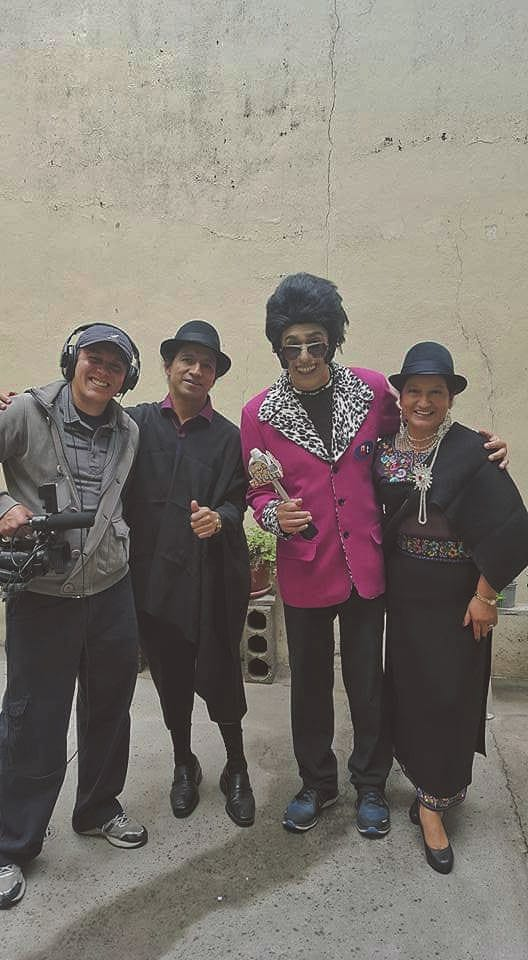 Posterior a la grabación.